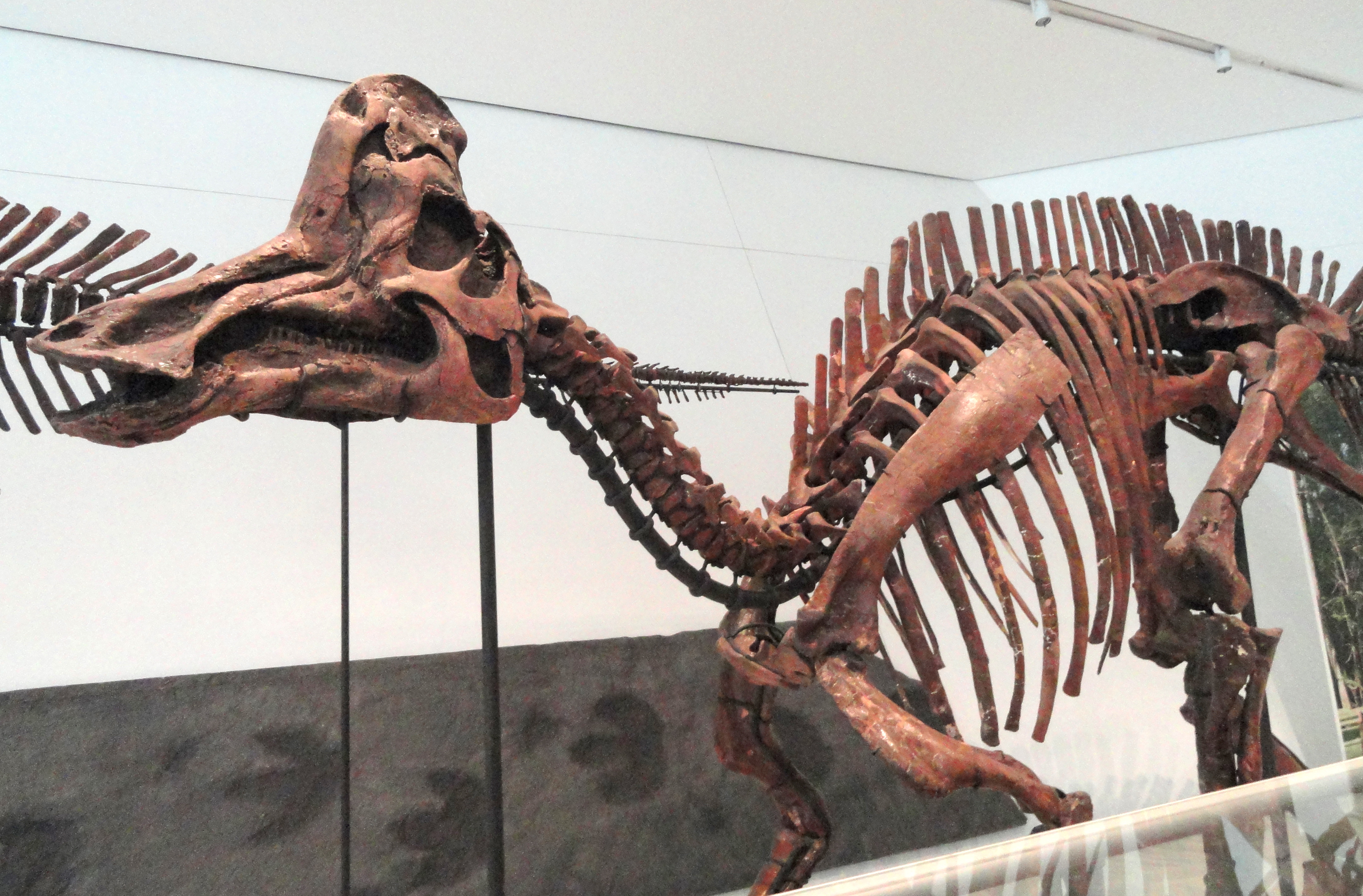 Exhibit in the Royal Ontario Museum, Toronto, Ontario, Canada. This exhibit is old enough so that it is in the public domain, and photography was permitted in the museum. I took this photograph and release it into the public domain.